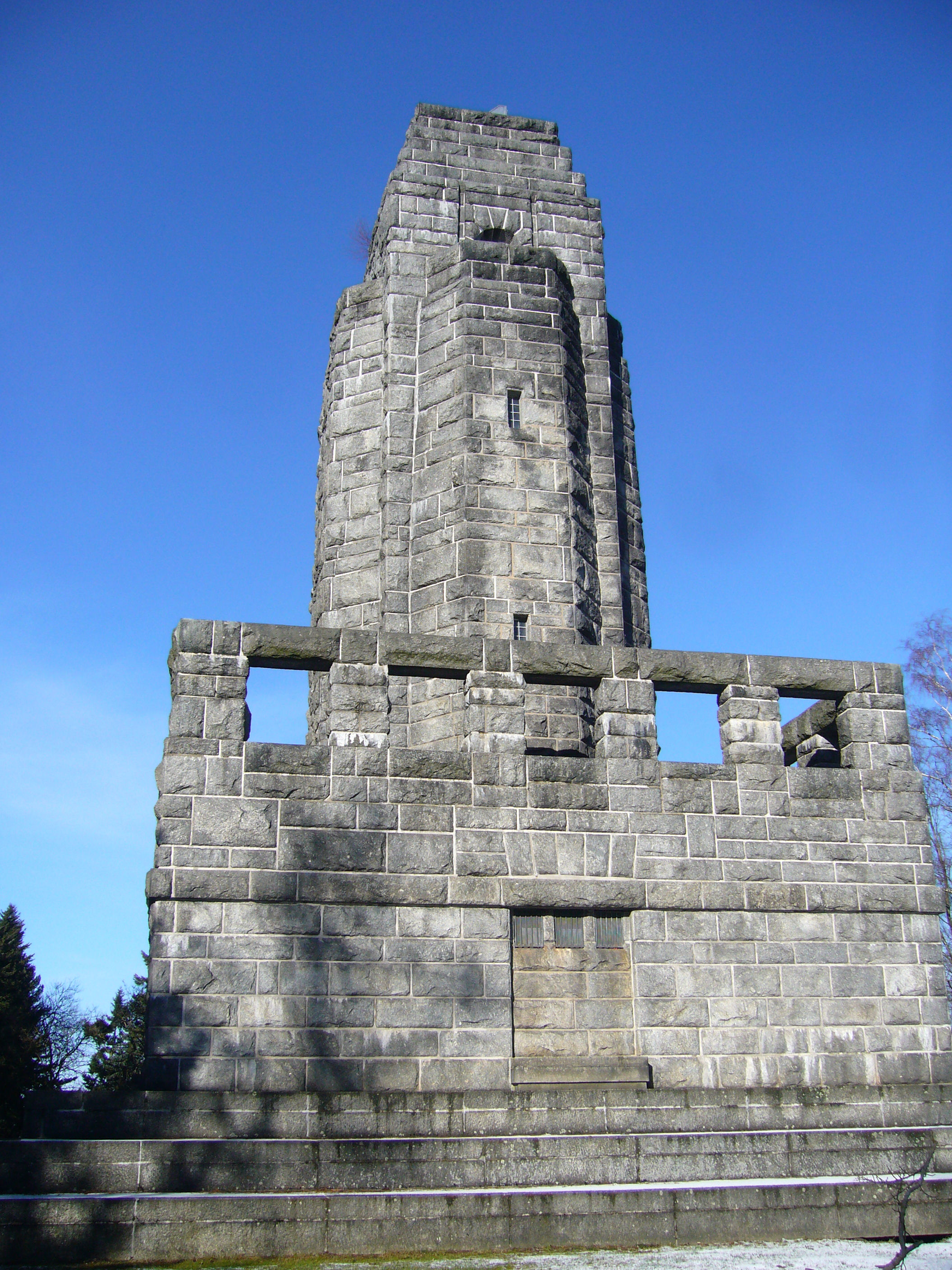 Bismarckturm Hof